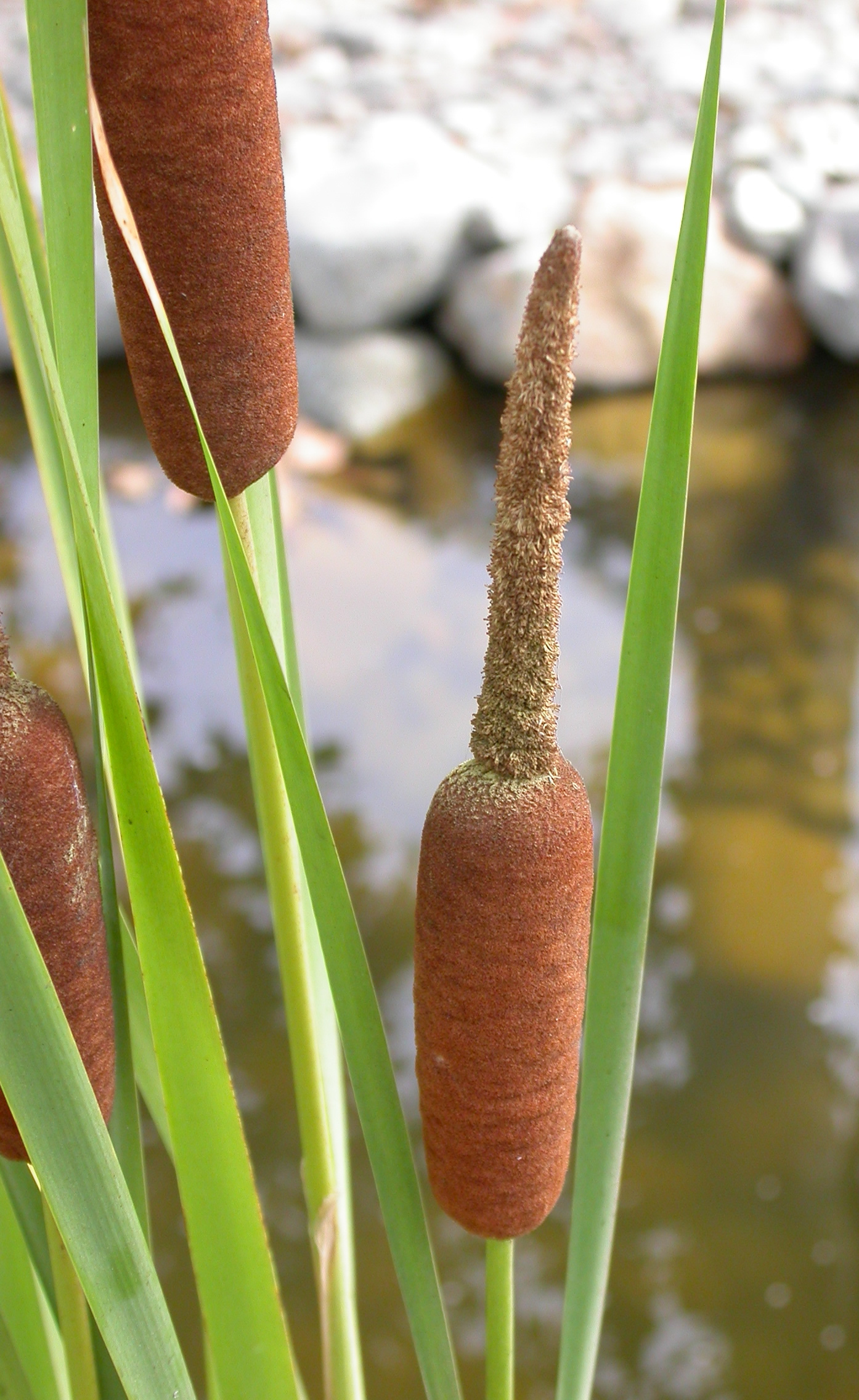 Typha latifolia Typha angustifolia Photographed at BioTrek. Contributed and © by Curtis Clark. Licensed as noted.